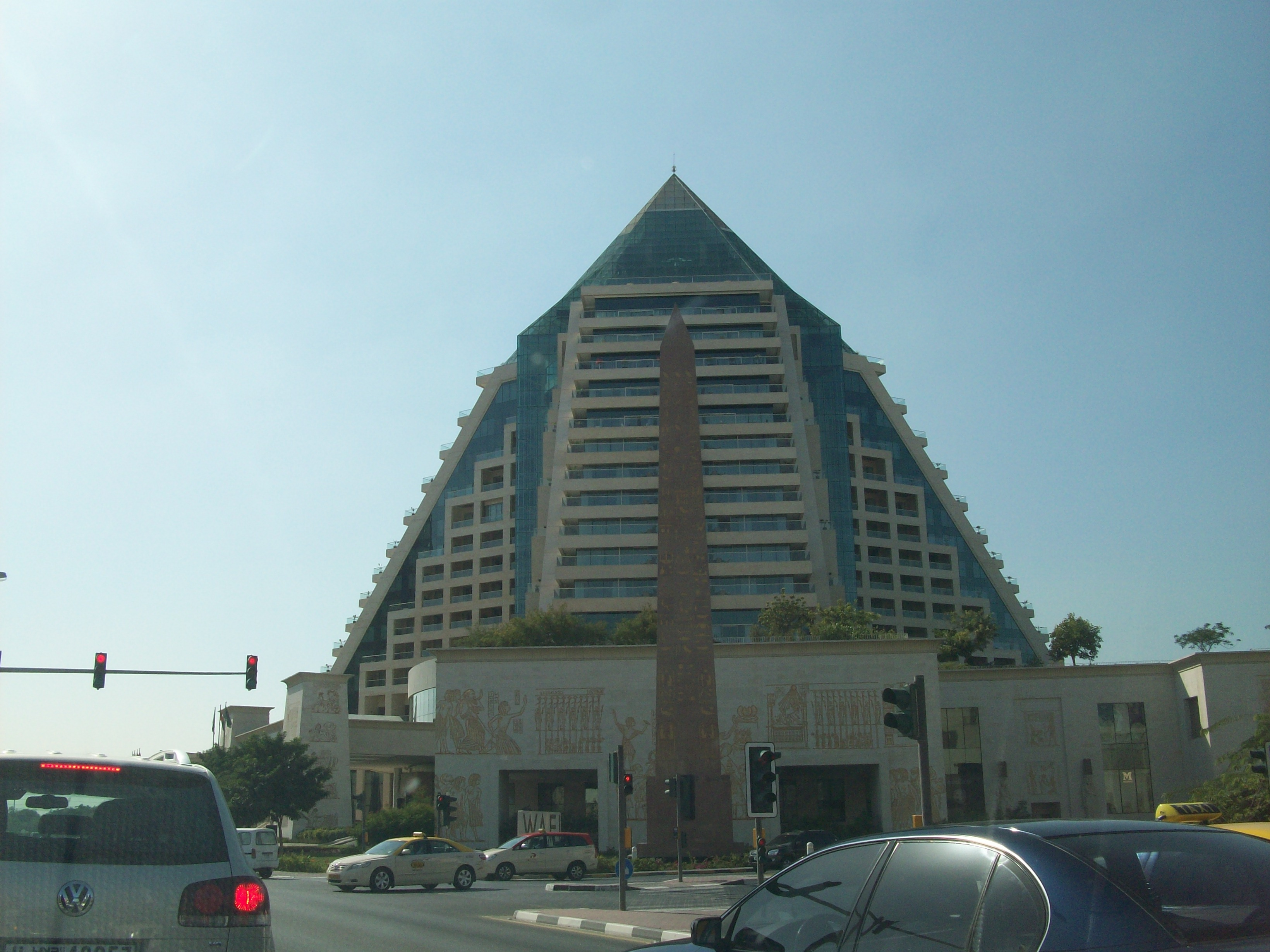 Wafi city 5